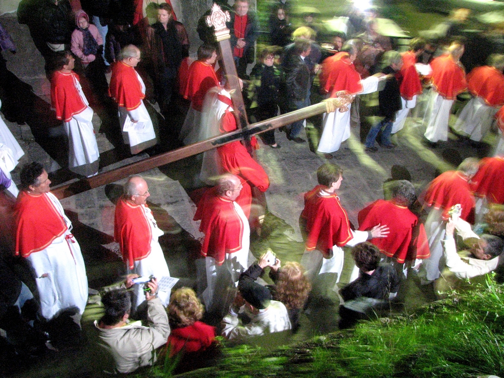 View from Catenacciu in Sartè (Corsica)